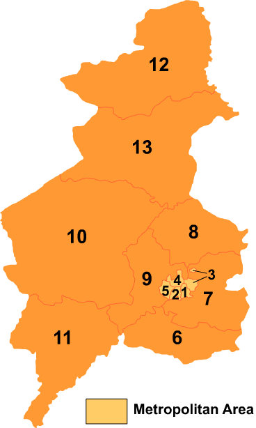 Map of Shenyang in Liaoning province